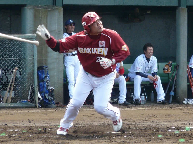 Hisashi-Kawata